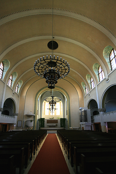 Interior of Kallio church, Helsinki, Finland